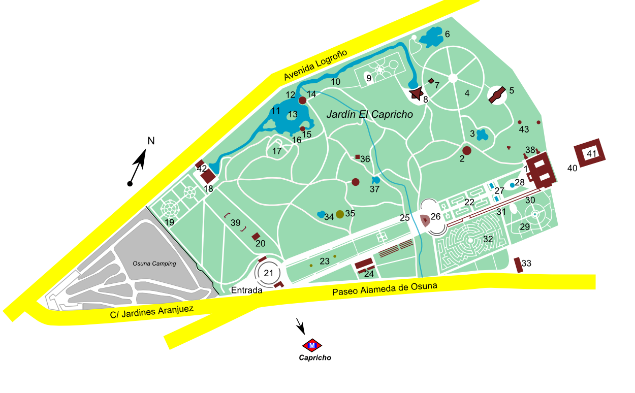 Jardín El Capricho, Madrid, Spain